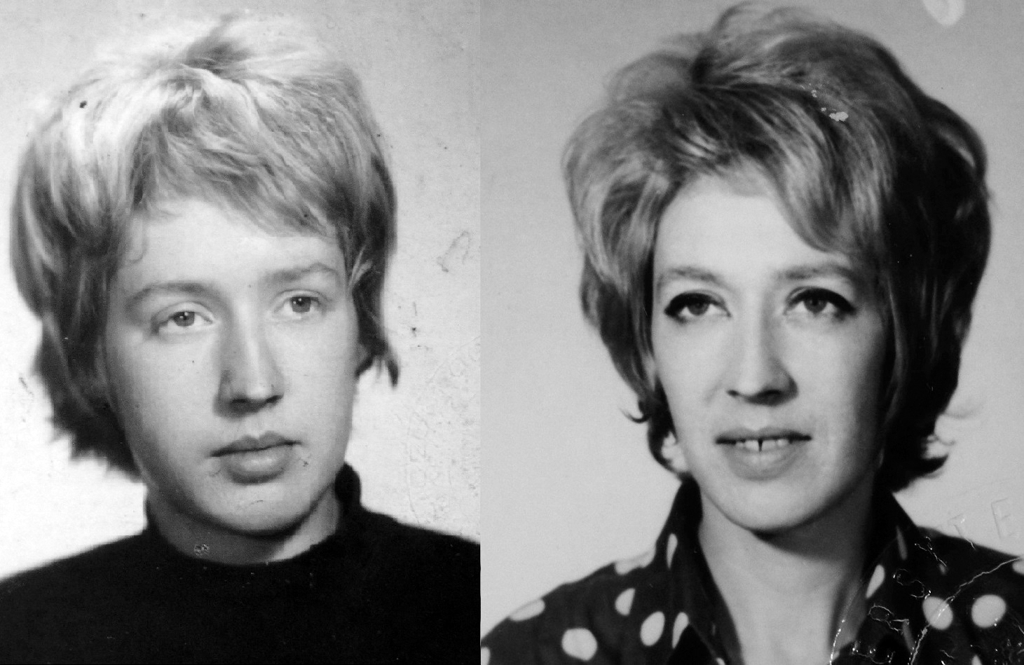 Grażyna Rutowska, polish photographer and journalist of agriculture press - portrait at age 17 and 35.